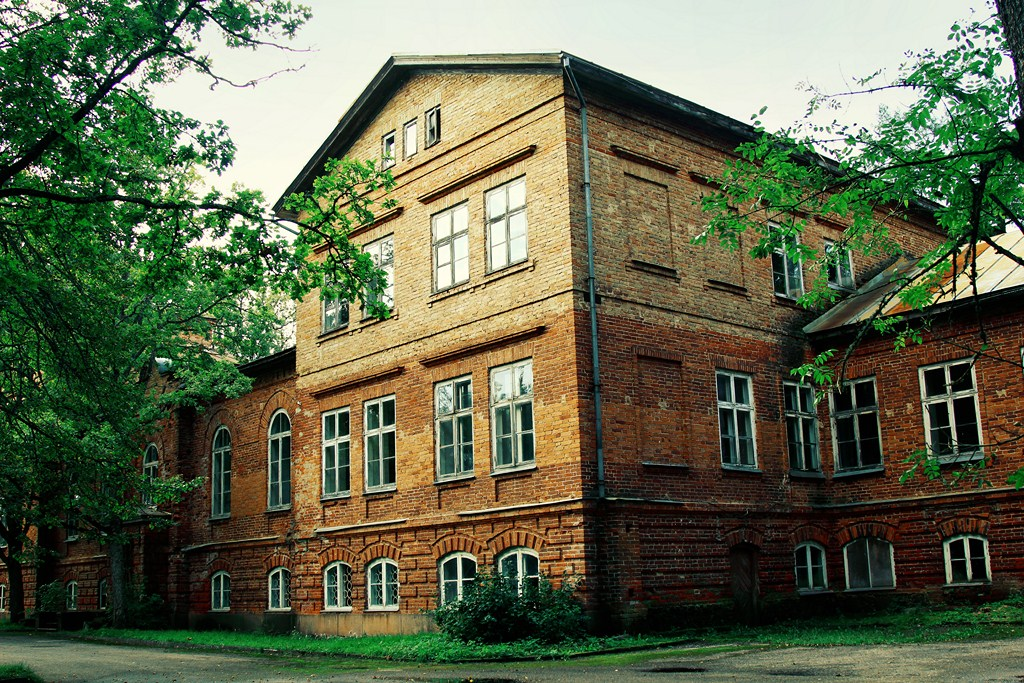 Manor main building - Virķēnu muiža